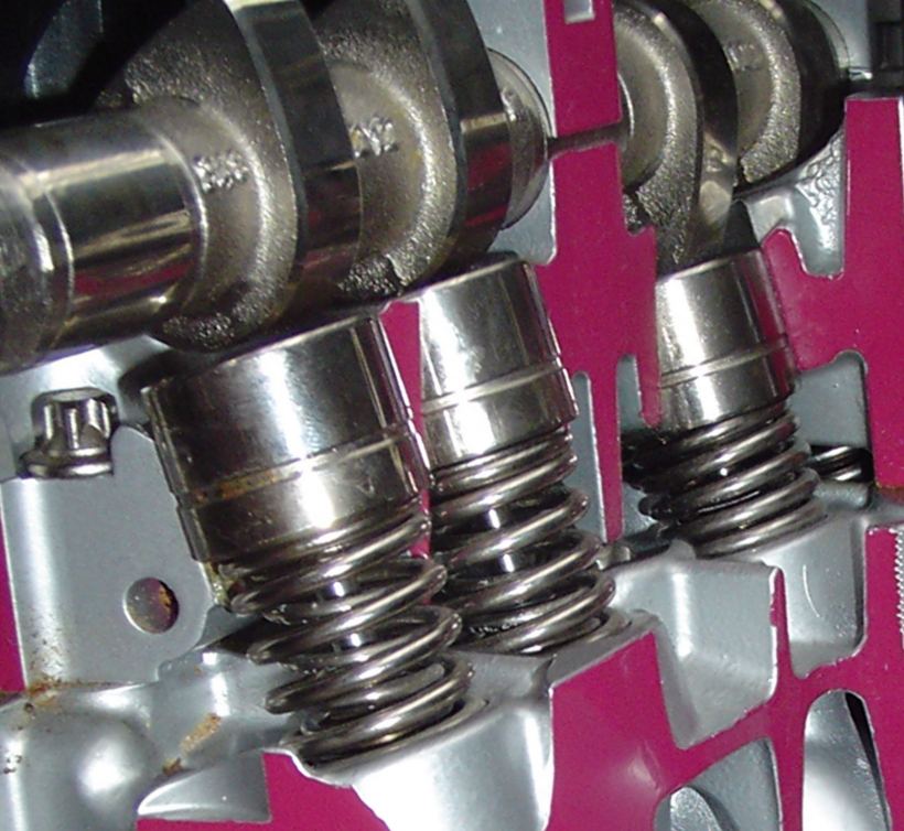 camshaft, valve, and valve spring